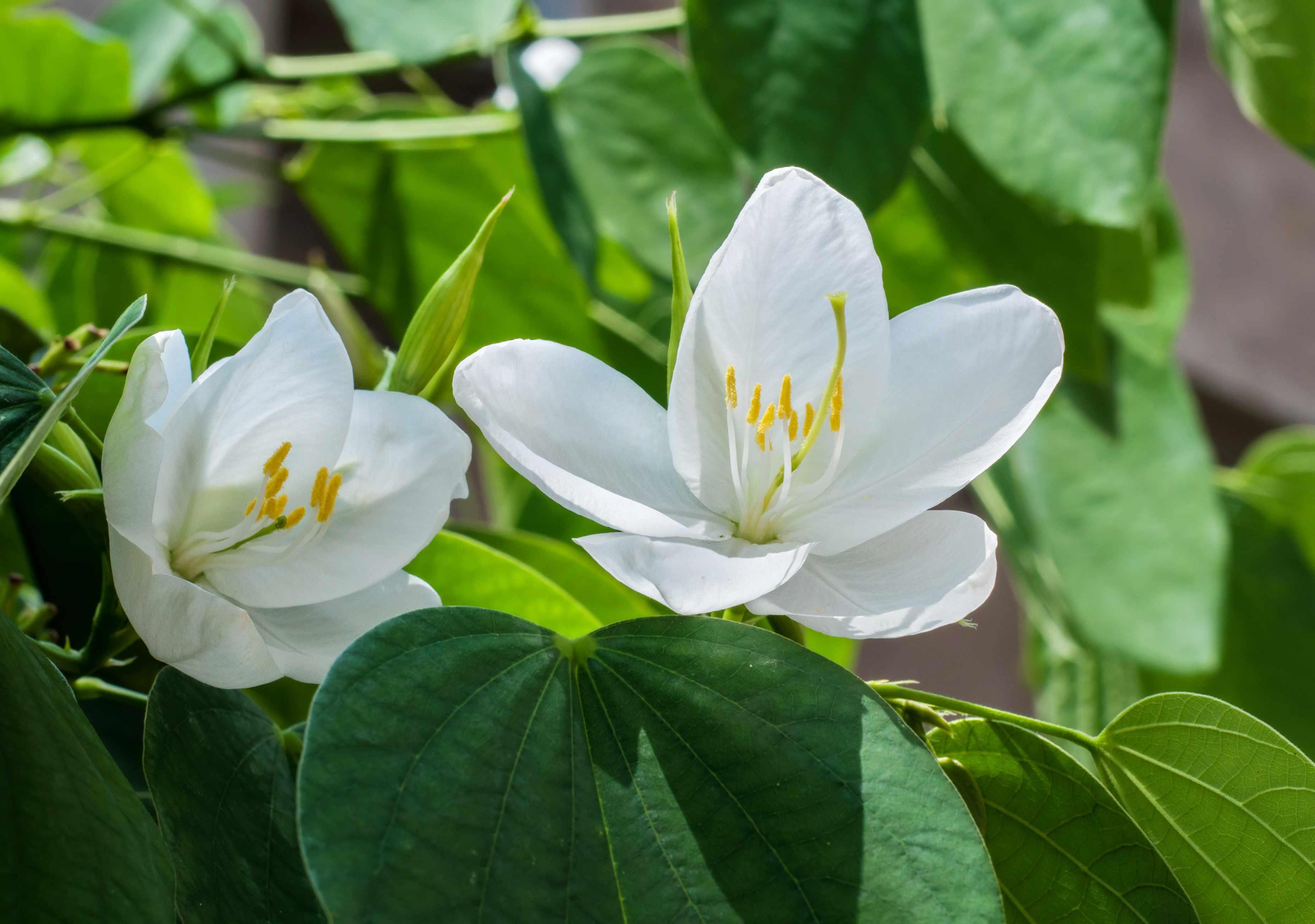 Bauhinia acuminata flower.